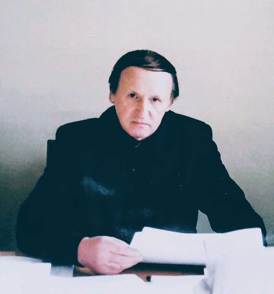 Доктор исторических наук С. В. Тютюкин